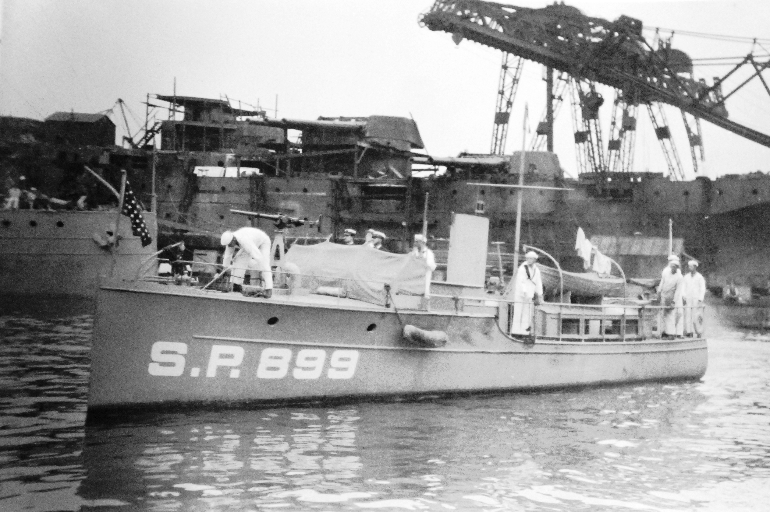 Lot 5371-4: New York (Brooklyn) Navy Yard, New York City, New York. USS Courtenay P (SP 899), September 15, 1917. In 1918, her name was changed to USS SP 899. After the war, she was returned to her owner. Photograph album donated by the heirs of Secretary of the Navy Josephus Daniels. Also at Naval Archives as 165-W-GZ-K-24. (6/12/2015).